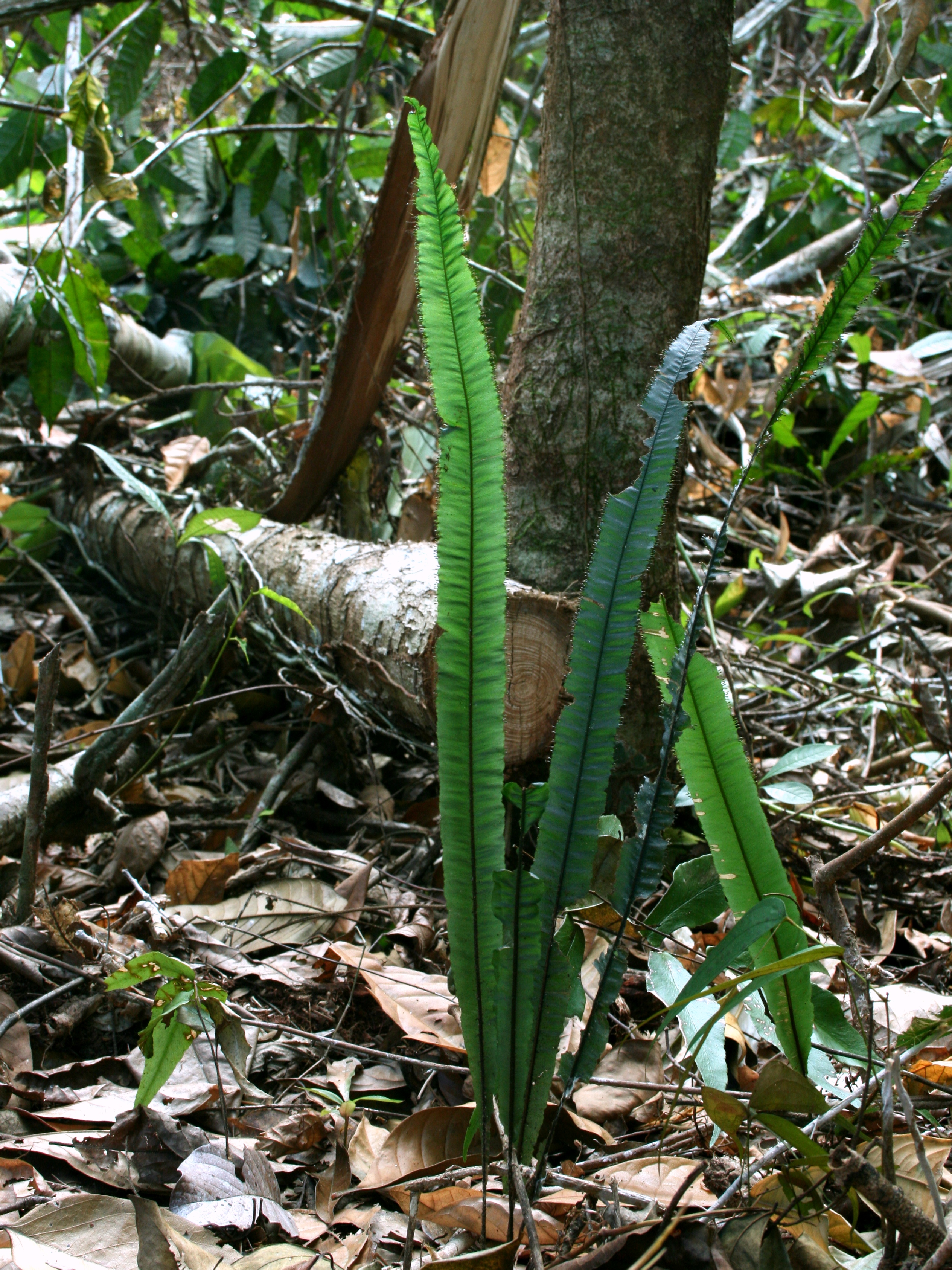 Trichomanes vittaria, Rio Caura, Venezuela